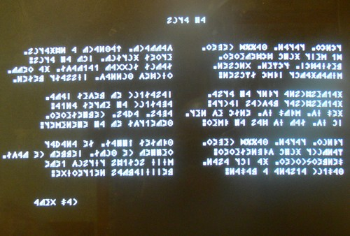 Screenshot of rovas text processor, developed by Béla Nagy, secondary school teacher, 1996. This text processor has been used at computer lessons.